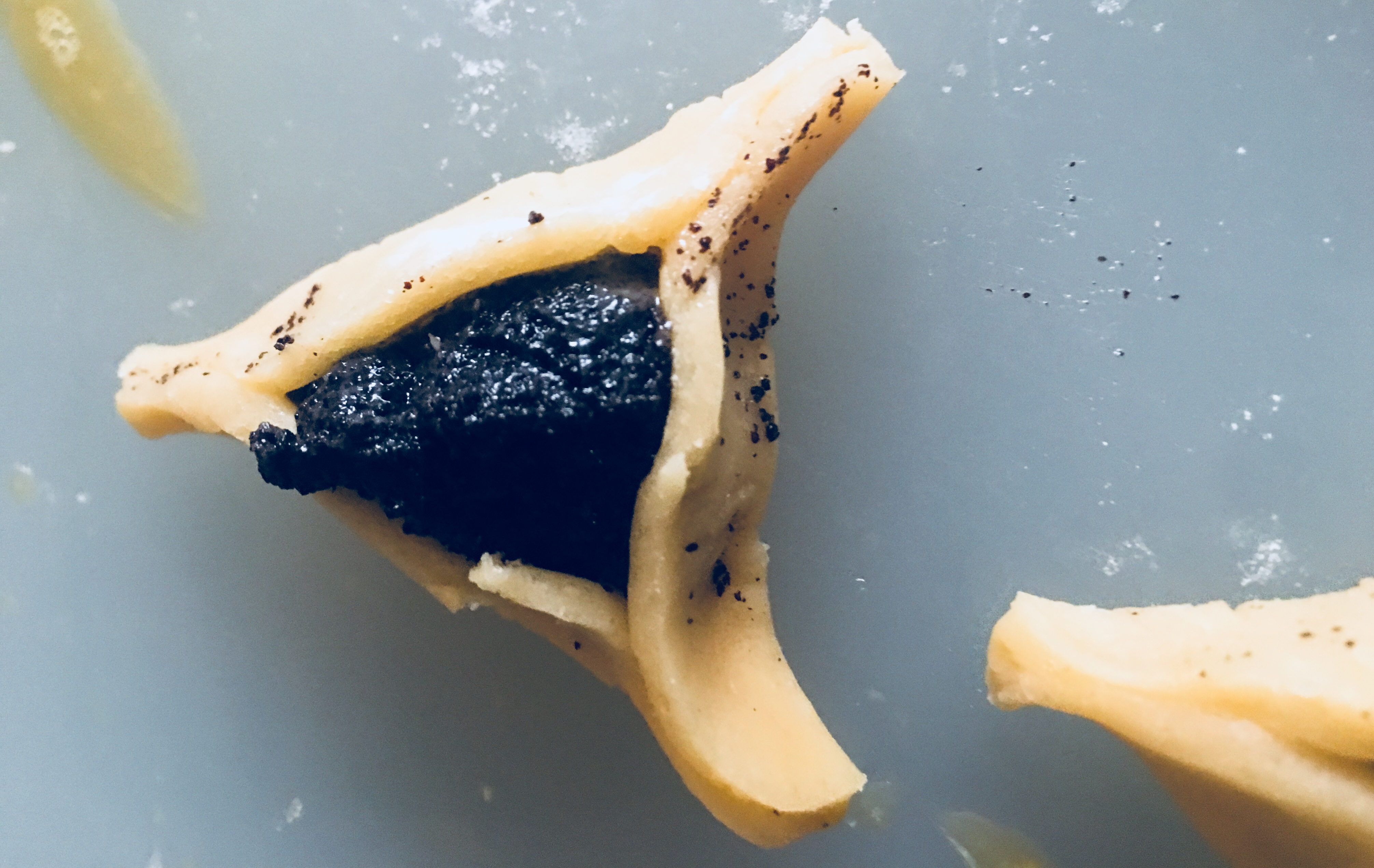 A photo of my mohn (poppyseed) hamantaschen being made